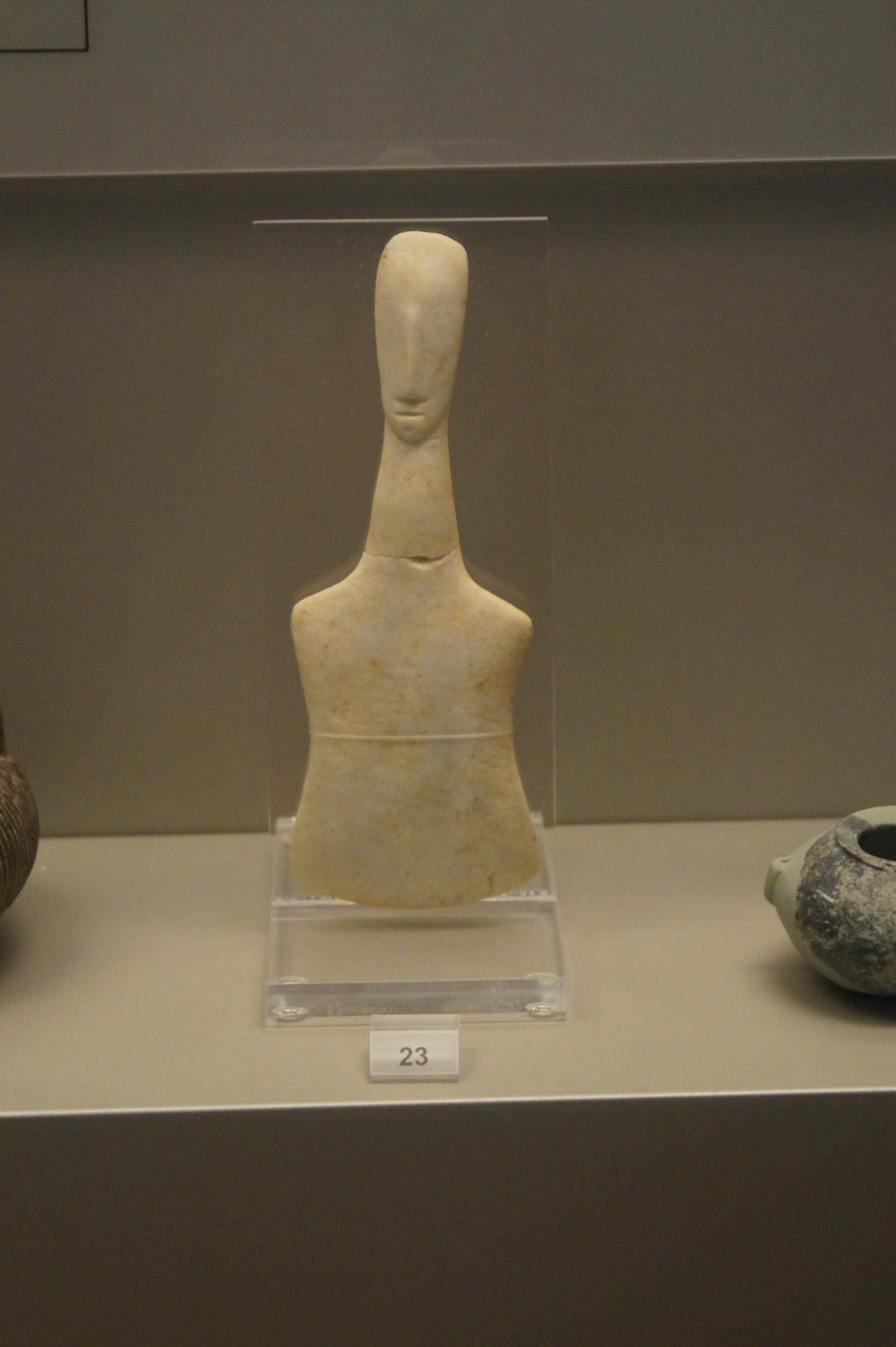 National Archaeological Museum of Athens: Marble cycladic figurine from tomb 4 of the Early Bronze Age cemetery on the promontory of Agios Kosmas in Attica. Probably it was deliberately broken.